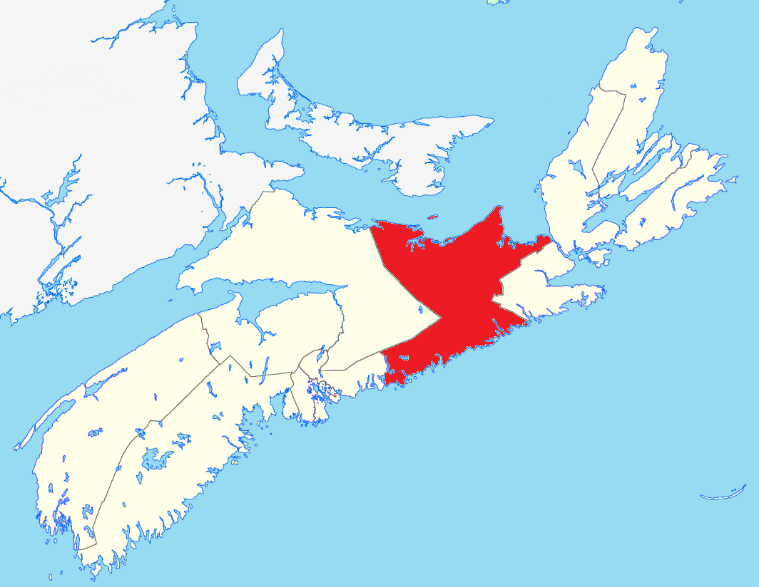 Map of Central Nova